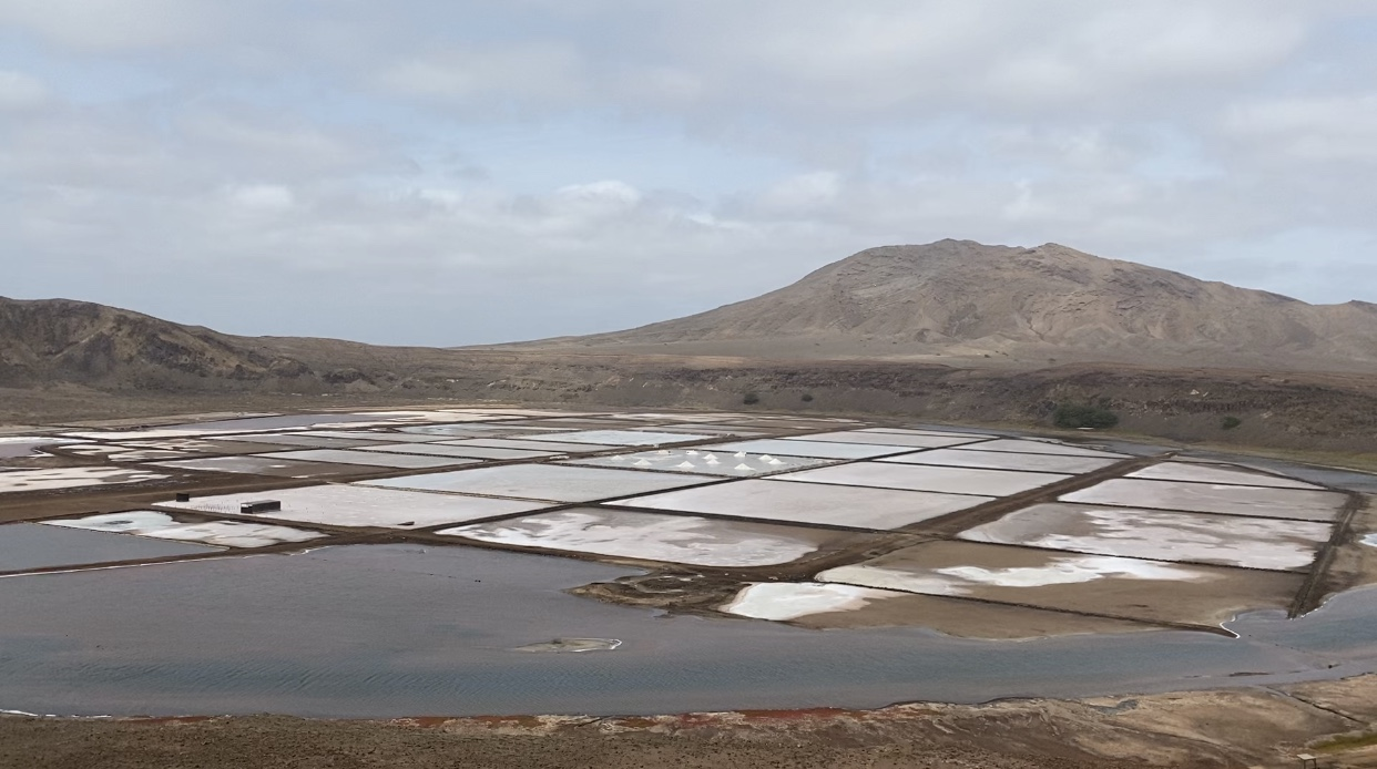 the beautiful Salt Island. Sal, Cape Verde This is an image with the theme "Africa on the Move or Transport" from: Cape Verde